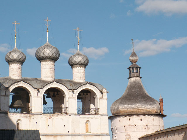 Rostov kremlin